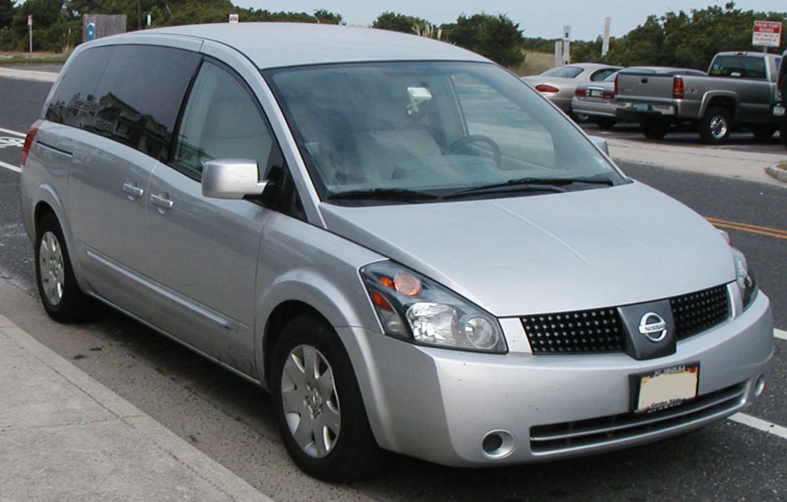 2004-2006 Nissan Quest photographed in USA.